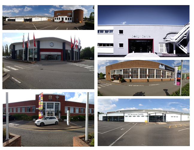 Photos of MG Motor UK HQ - SAIC UK Technical & Design Centre Other information Photos taken using I phone 5